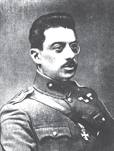 Greek Colonel Dimitrios Ambelas was the artillery commander in the course of the Independent Division in 1922.